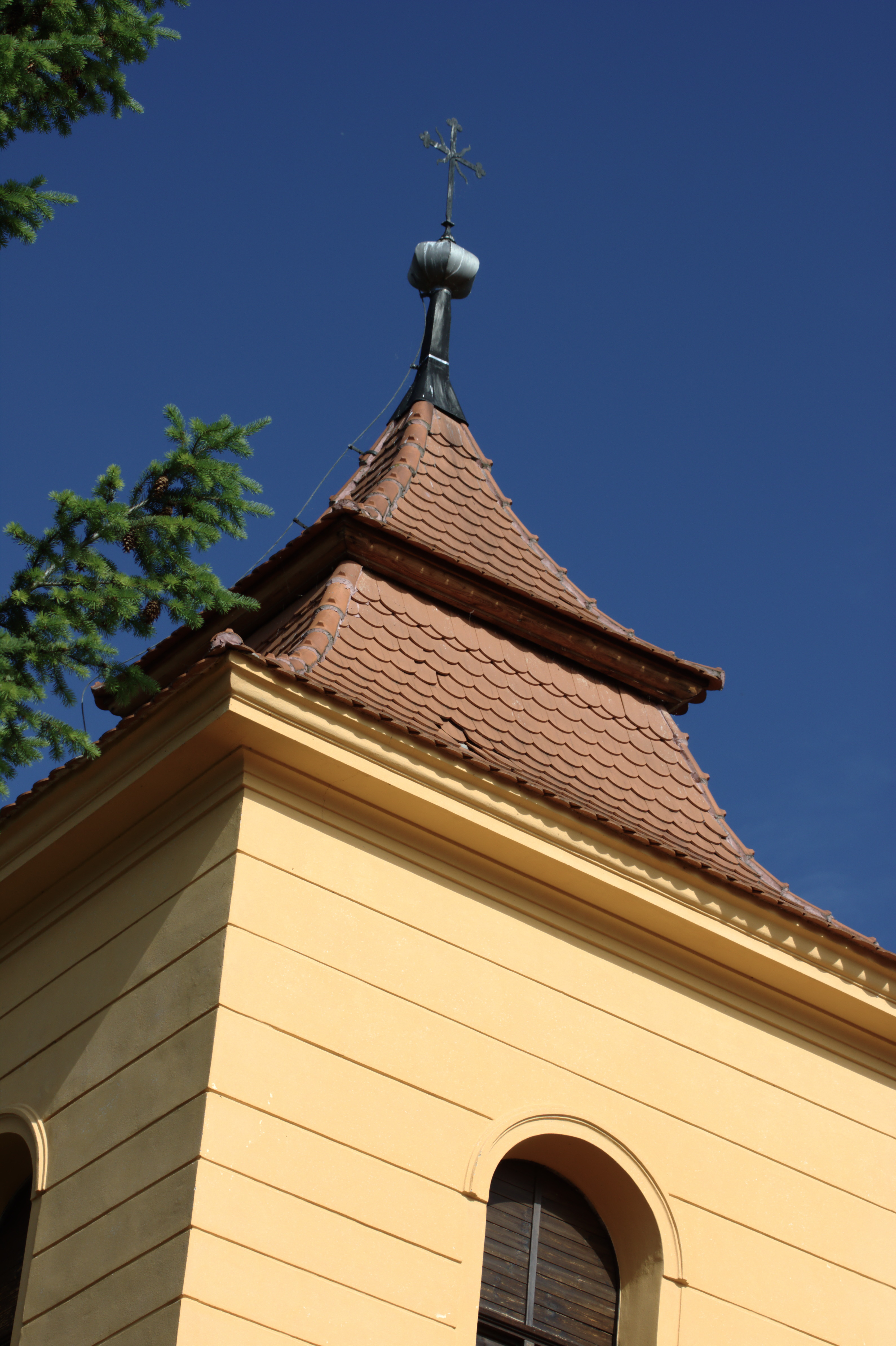 A church tower in Prackovice nad Labem, Ústí Region, CZ